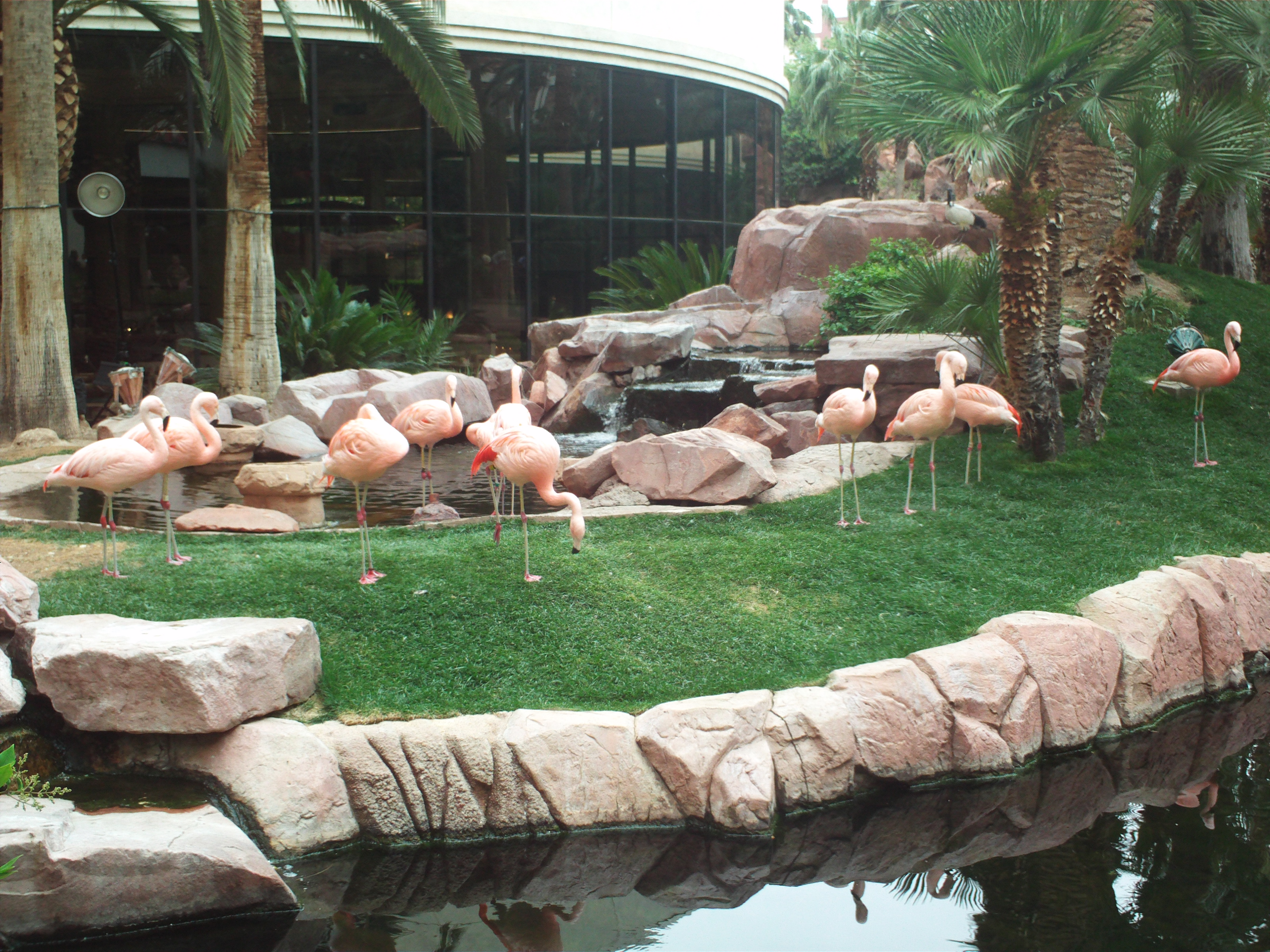 Pink flamingo. Flamingos in the tropical garden of Hotel Flamingo in Las Vegas., Las Vegas.